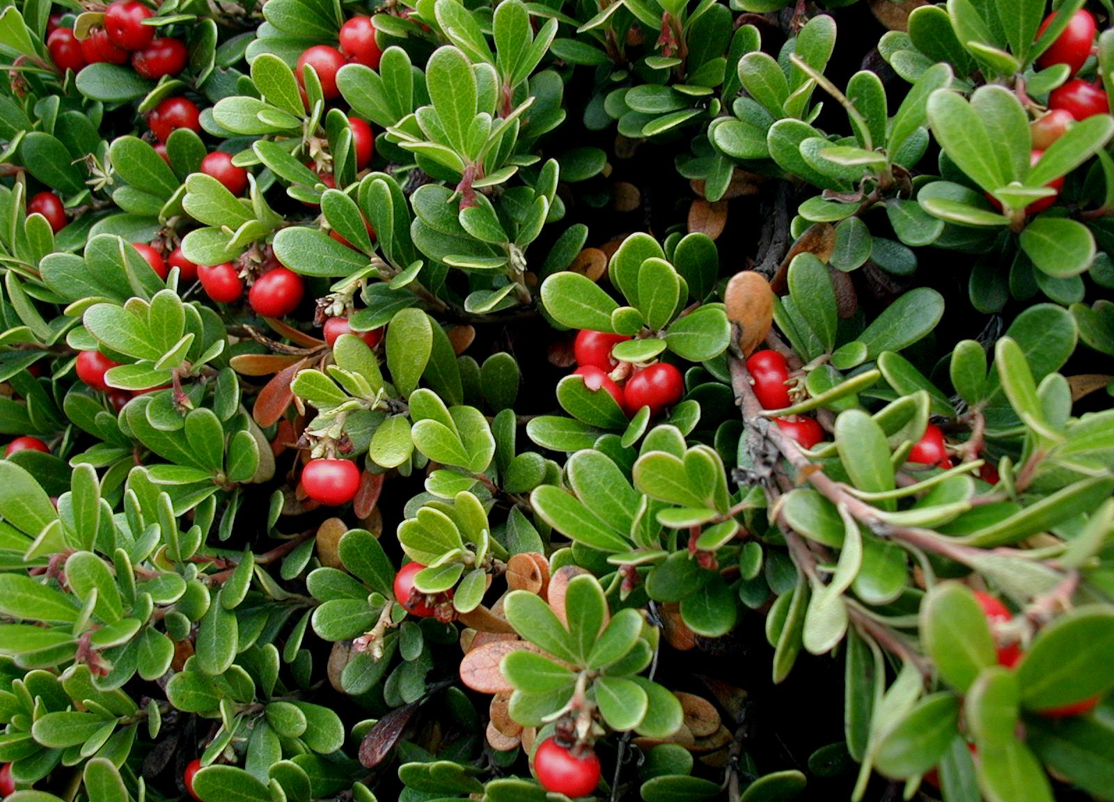 Picture taken near Akureyri, Iceland.